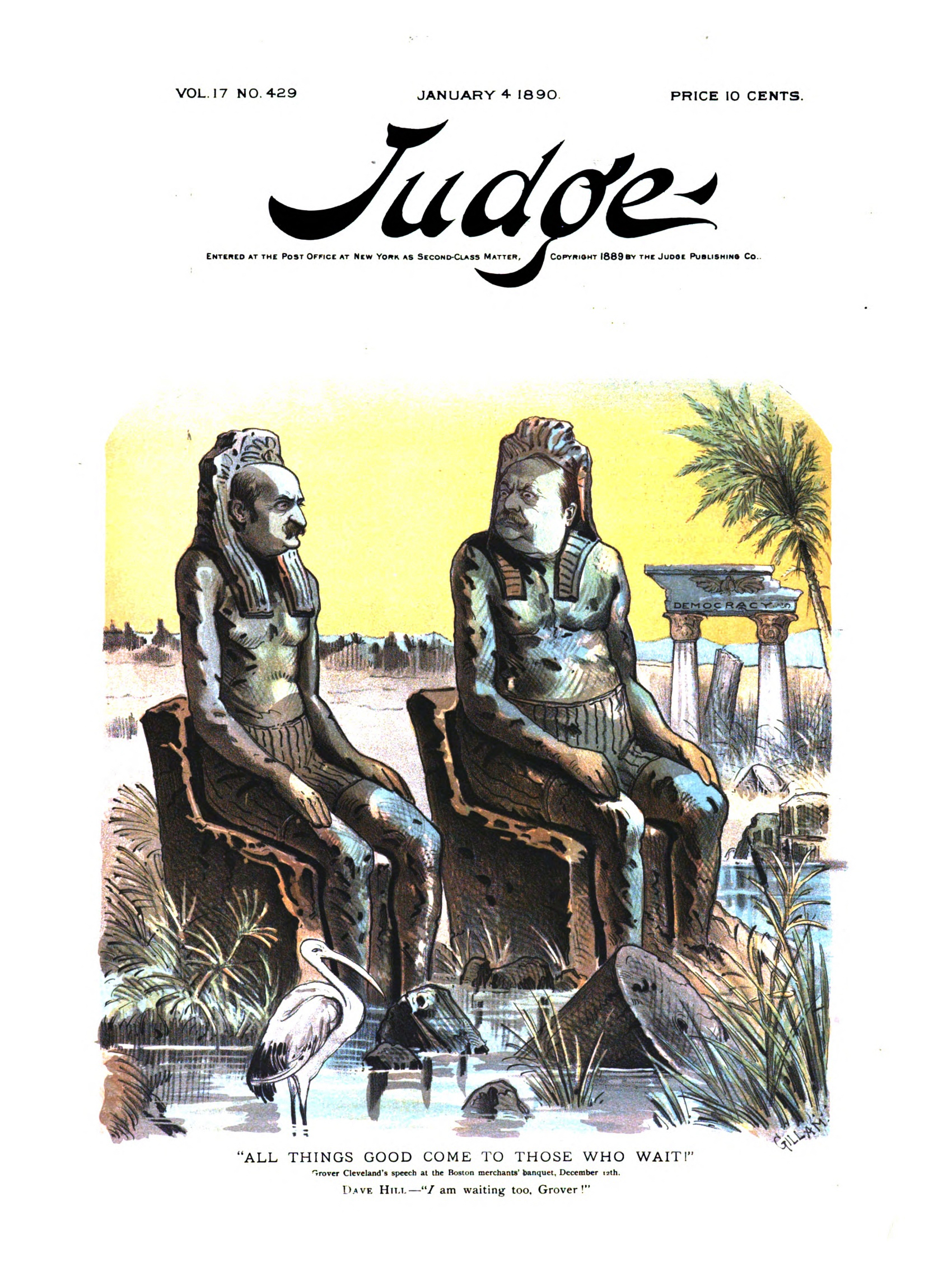 Judge Magazine Cover (4 Jan 1890)